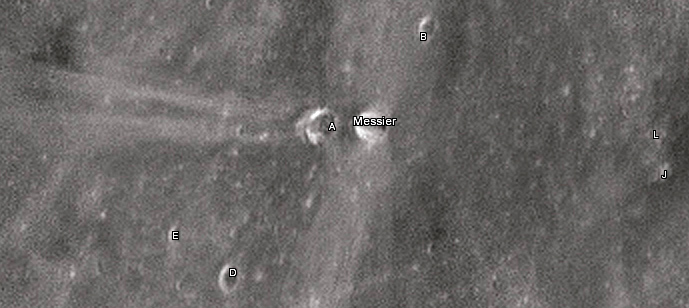 Messier lunar crater as seen from Earth with satellite craters labeled